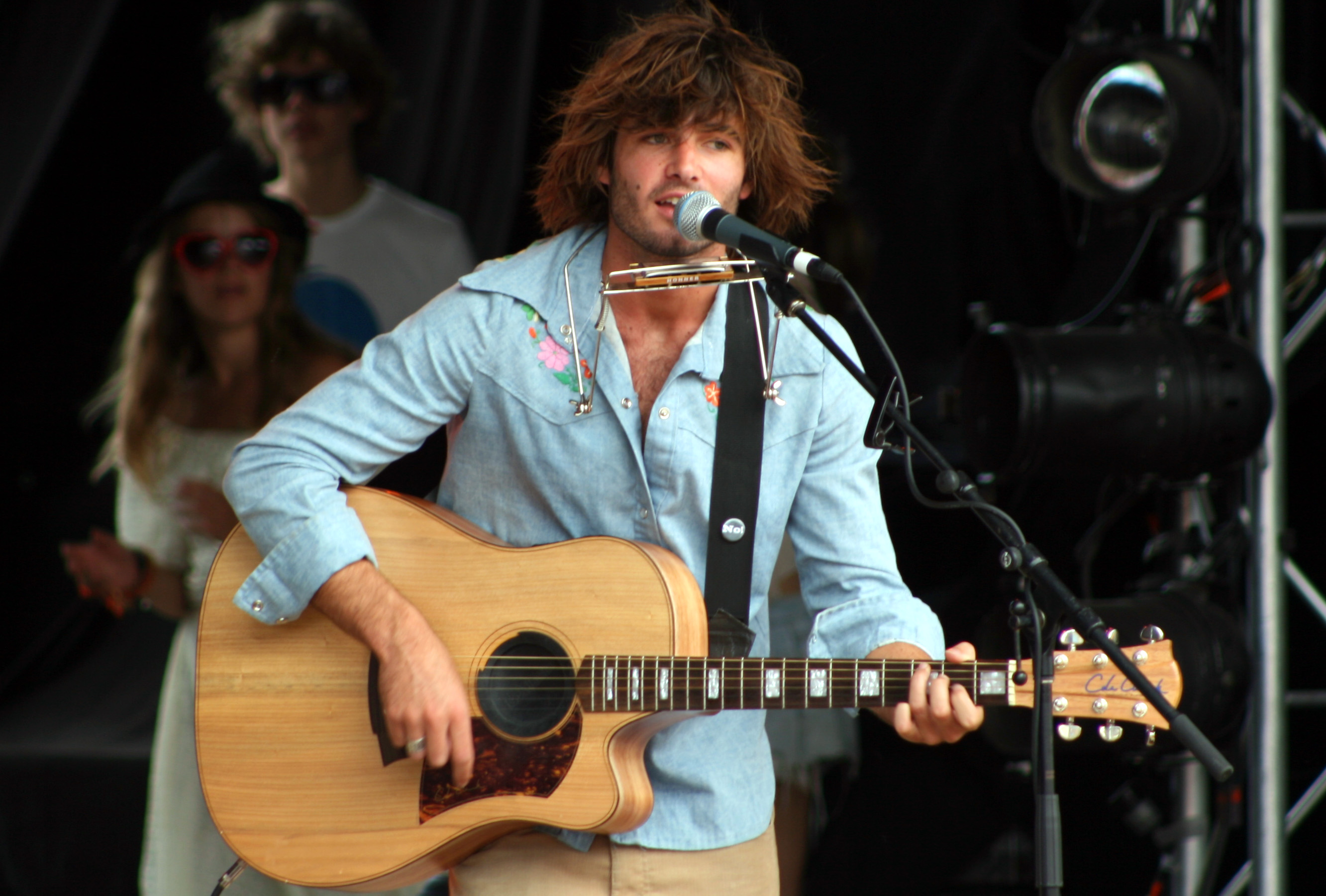 Angus Stone, from the duo Angus & Julia Stone, at Falls Festival in 2007.